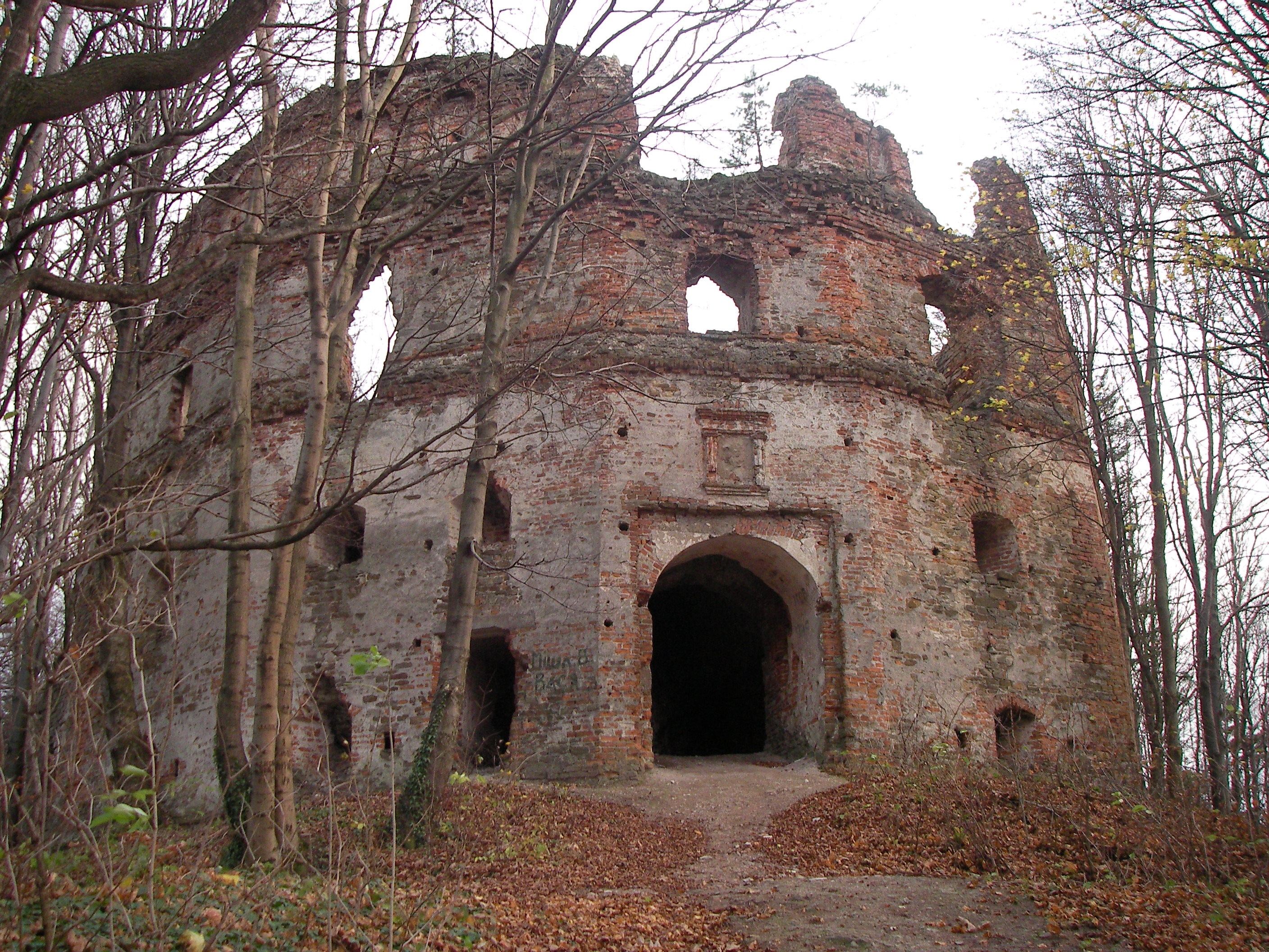 Herburt castle ruins near Dobromyl